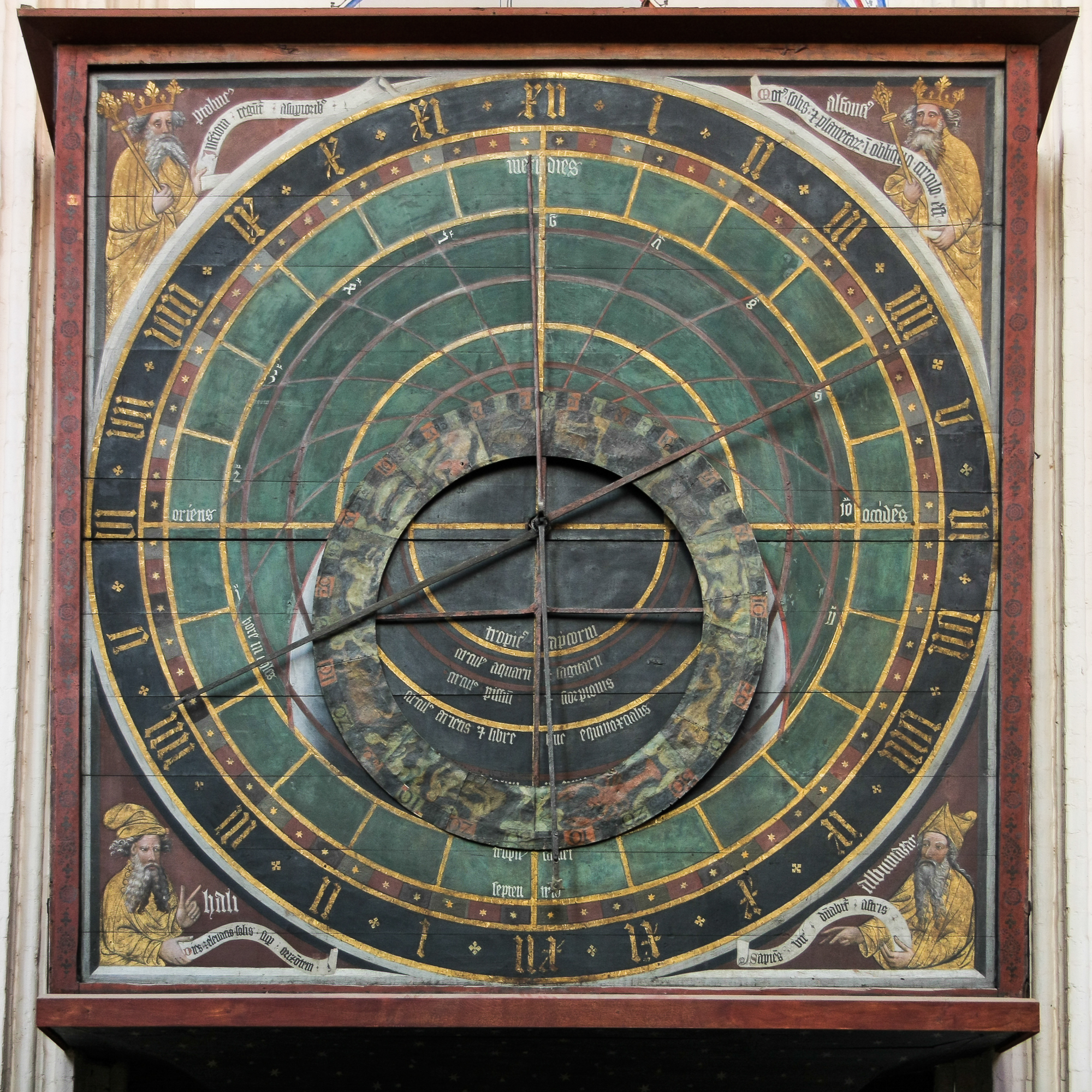 Astronomic clock, Nikolaikirche, Stralsund, Germany